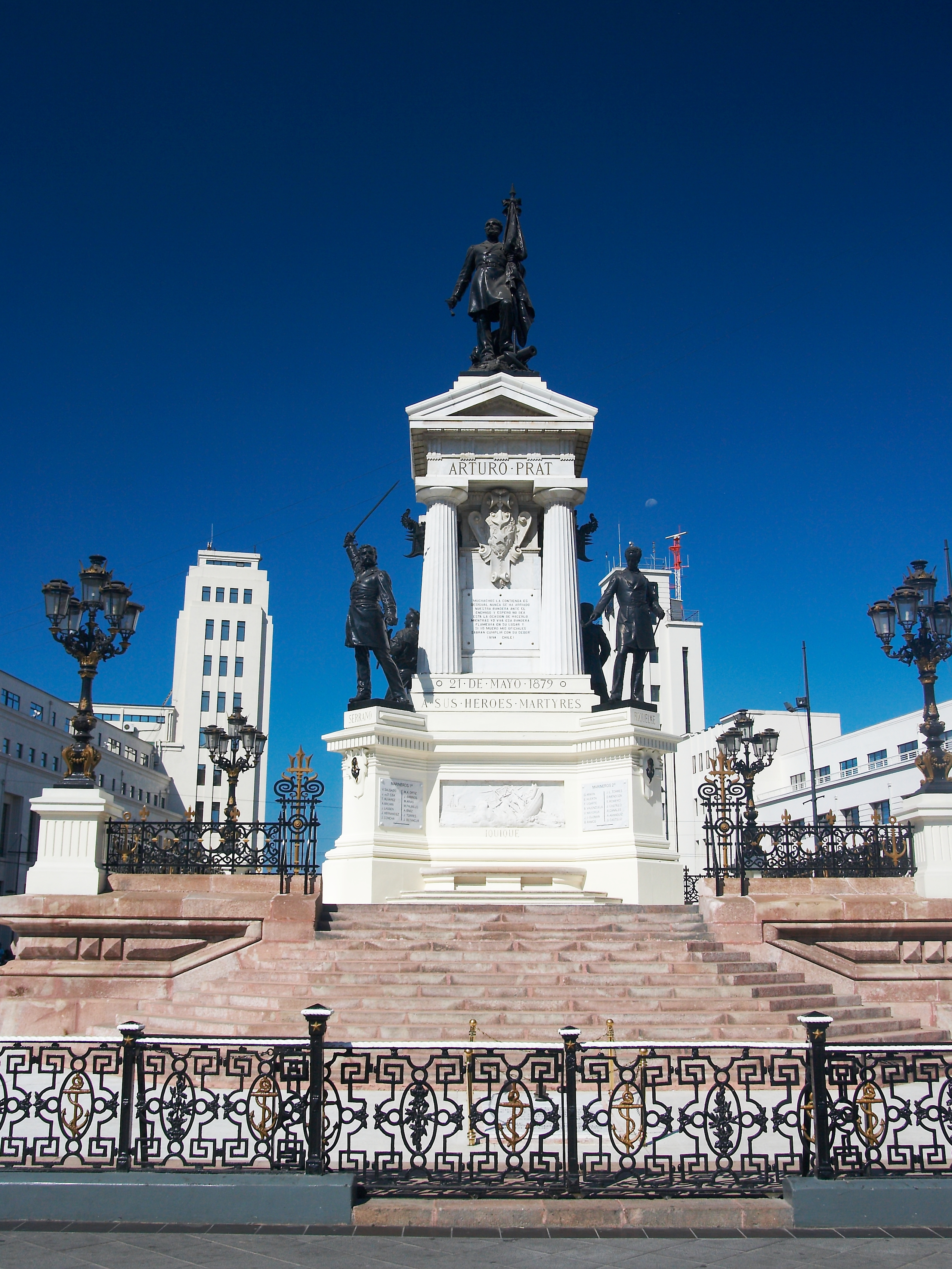 Valparaíso, Chile.